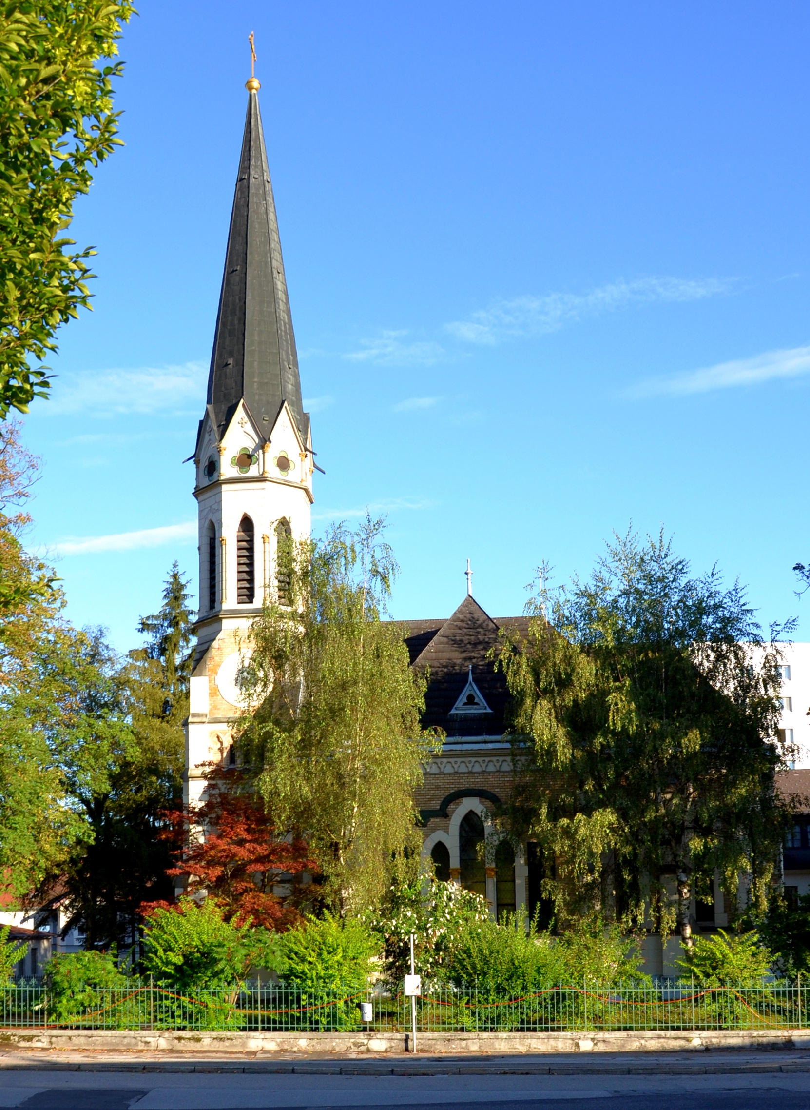 Evang. Church Steyr, Austria